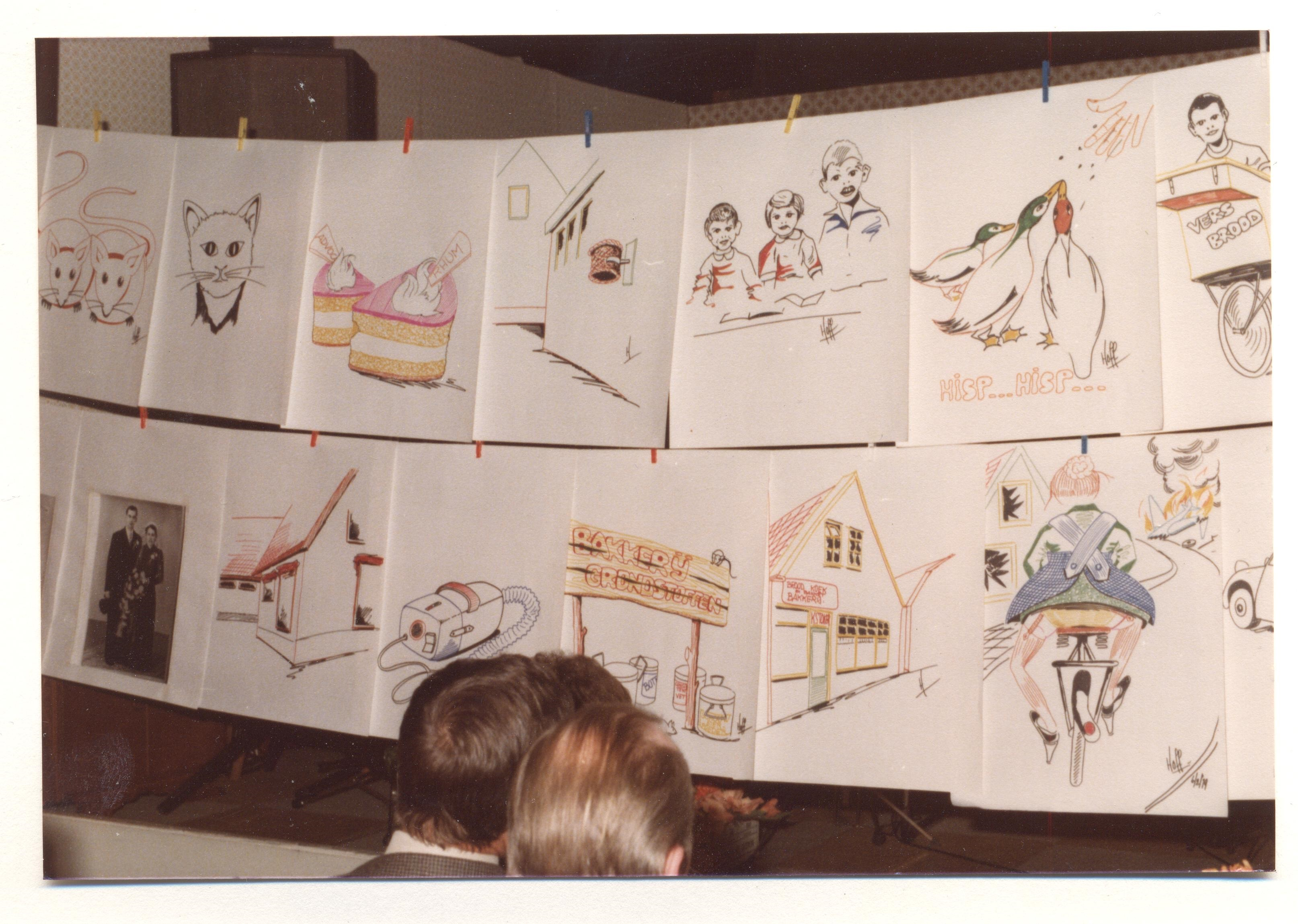 Schnitzelbank (de: Hobelbank )